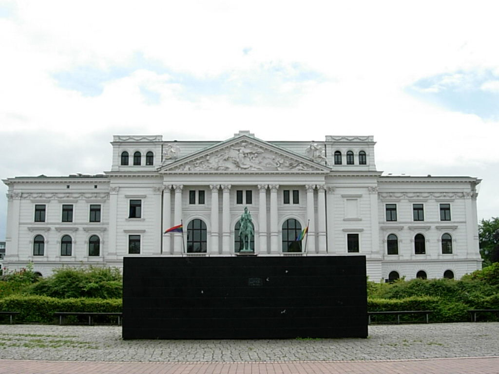 Sol Lewitt, Black Form Dedicated to the Missing Jews, Altona Rathaus, Hamburg/ Germany.